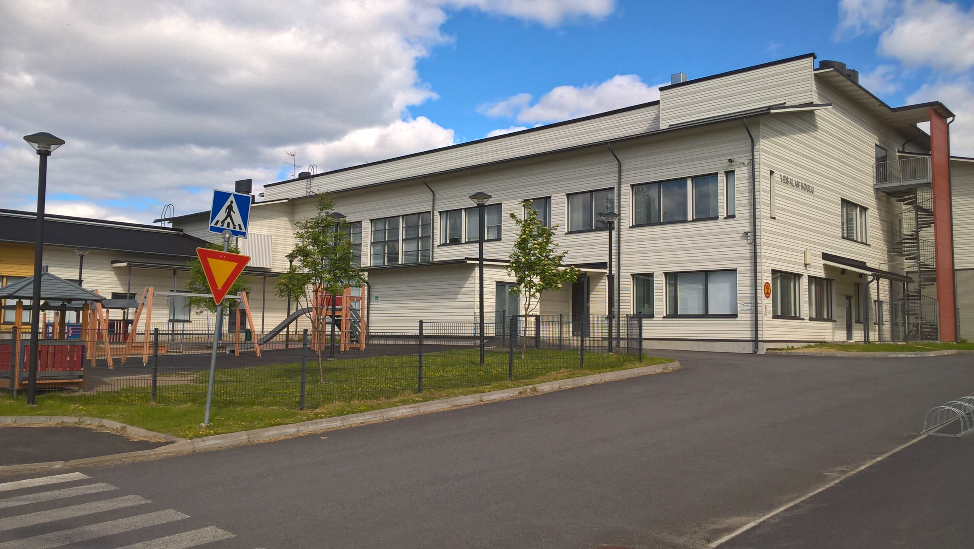 The school of Vesala in Oulu, Finland. A day care centre is located in the wing of the building shown on the left. Moreover, the building is used as a community centre of Vesala.